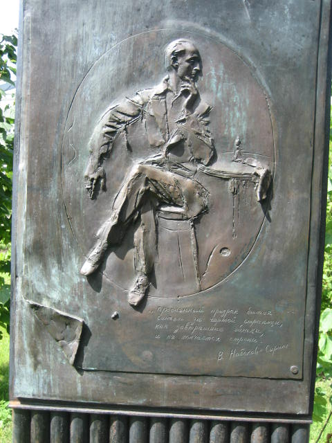 Memorial for Vladimir Nabokov, patio of philological faculty, University of Saint Petersburg